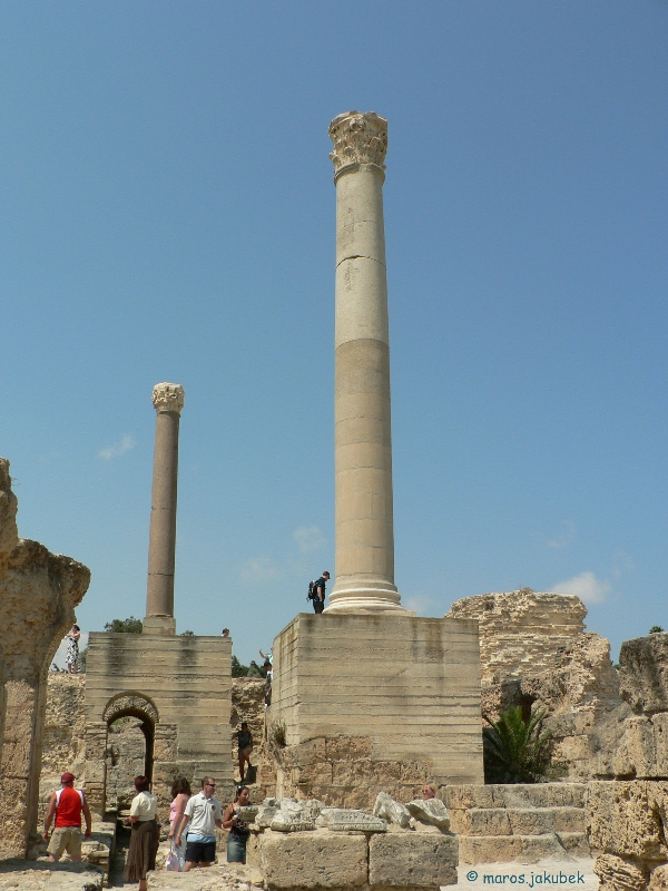 The photo from my holiday in Carthage. Antonine baths (Carthage)